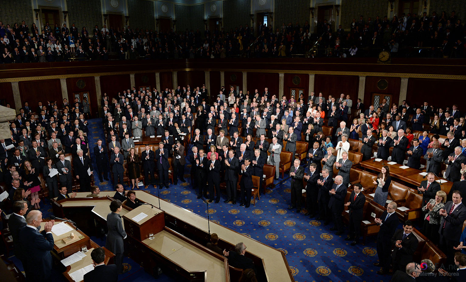 President Park at U.S. Congress The senators and House of Representatives give a standing ovation to President Park at the U.S. Congress on Capitol Hill in Washington, D.C. May 8 2013.05.08.(U.S. Eastern Time) Cheong Wa Dae -Related Article- "President Park proposes Korea-U.S. alliance a global partnership" 박근혜 대통령 미국 의회 상하원 합동회의 연설 박근혜 대통령이 8일 오전(현지시간) 미국 의회에서 열린 상하원 합동회의에서 연설을 시작하기에 앞서 기립박수를 받고 있다. 청와대